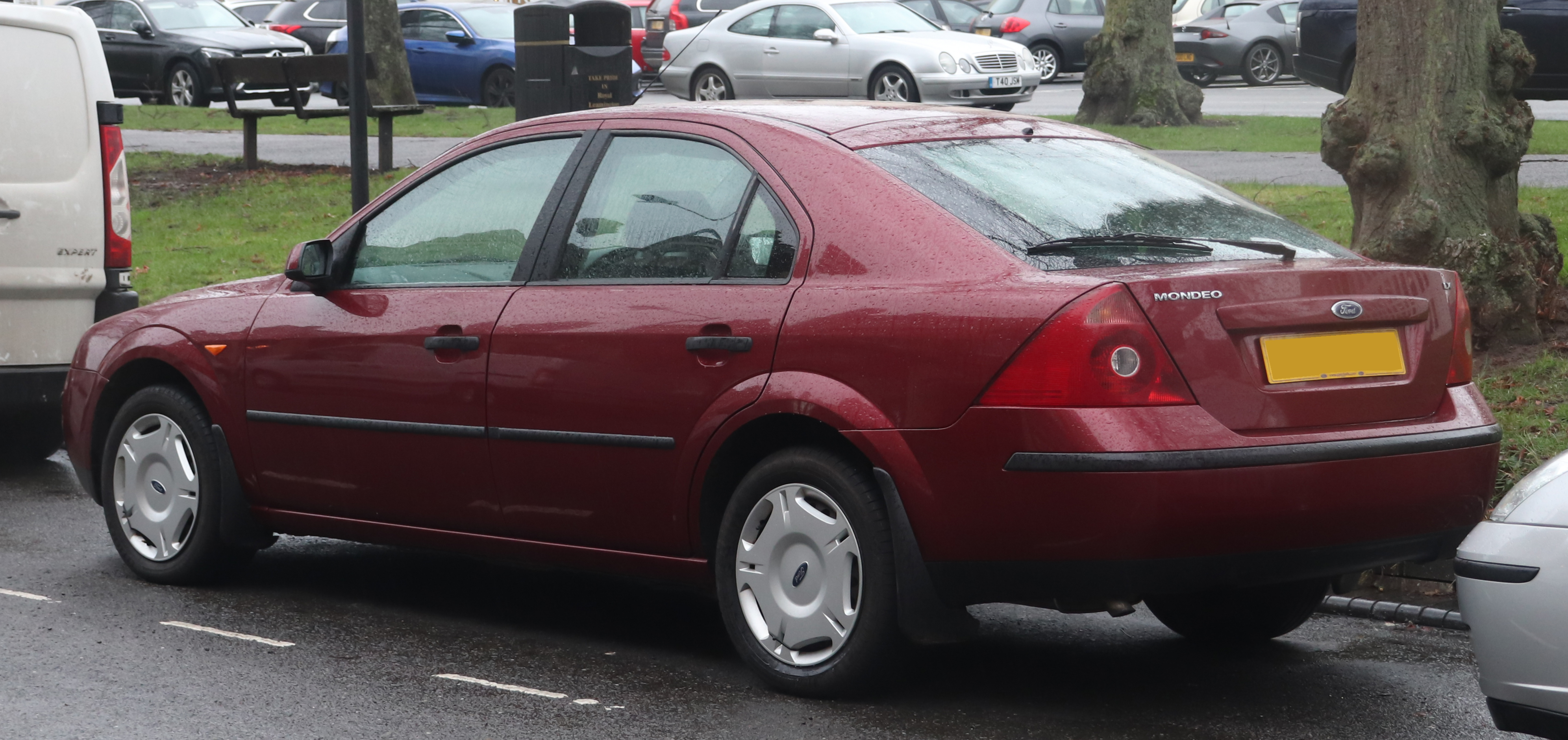 2001 Ford Mondeo LX 1.8 Rear Taken in Leamington Spa